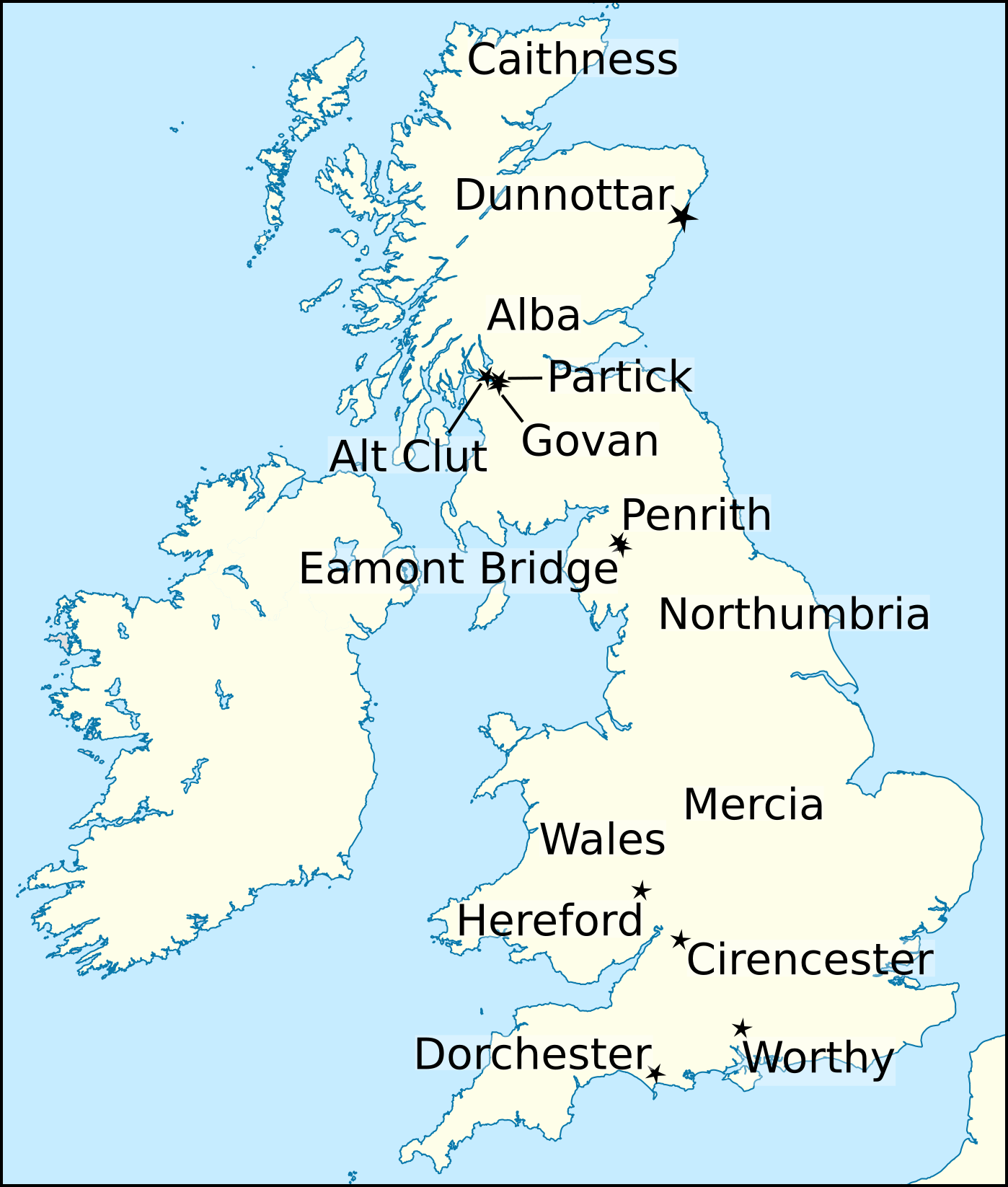 Map for the Wikipedia article concerning Owain ap Dyfnwal, King of Strathclyde (fl. 934).